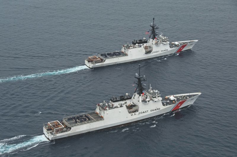 First_2_National_Security_cutters,_the_Bertholf_and_Waesche,_cruise_together. Original caption: History was made when the first two ofa the Coast Guard's Legend-class cutters, Bertholf and Waesche, were photographed during their transit together on the waters off the coast of Southern California, Feb. 26, 2010. Ultimately eight of these highly capable 21st century vessels will be built for the Coast Guard. U.S. Coast Guard photo by Petty Officer 2nd Class Jetta H. Disco.